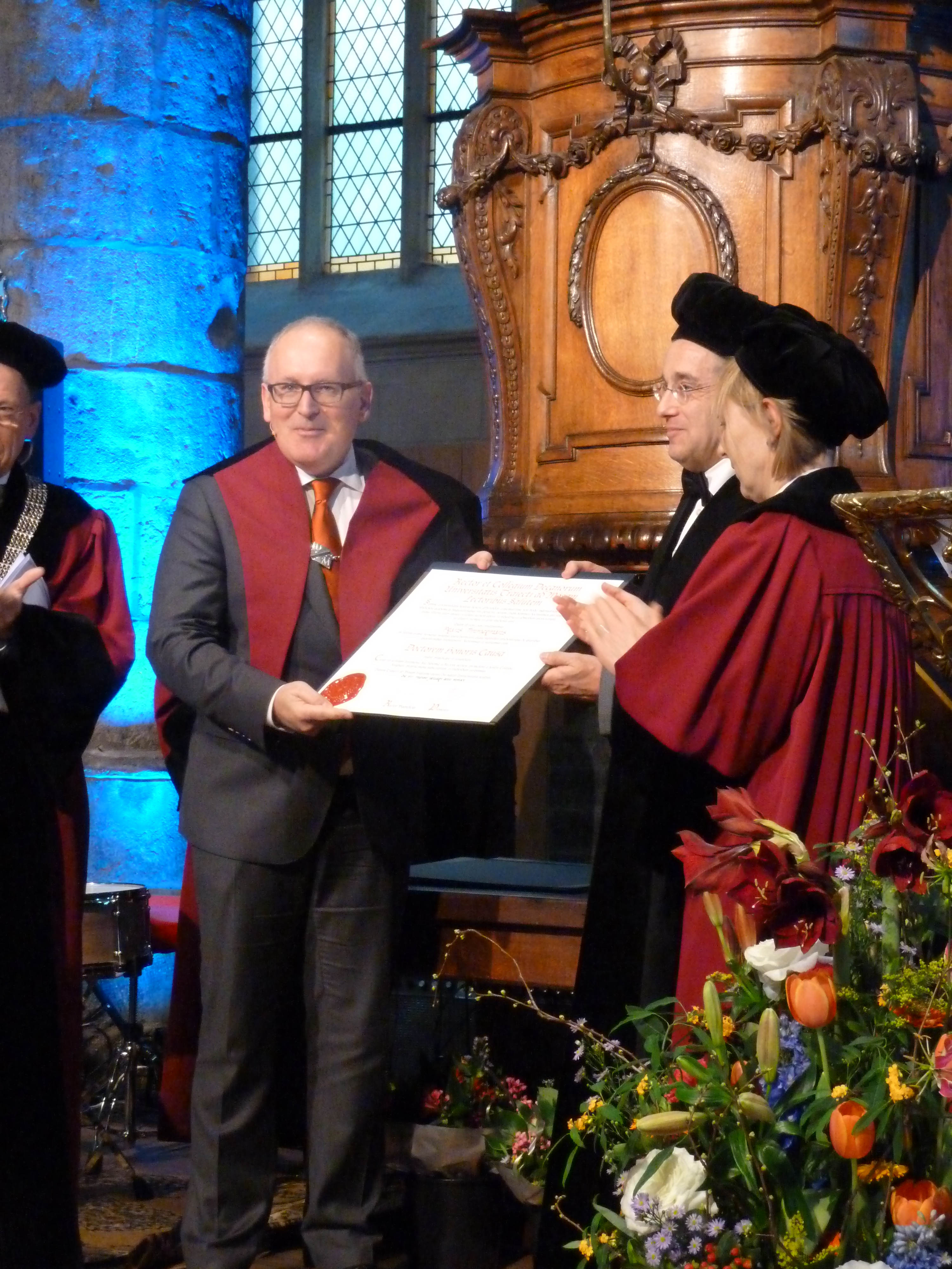 39th Dies Natalis of Maastricht University